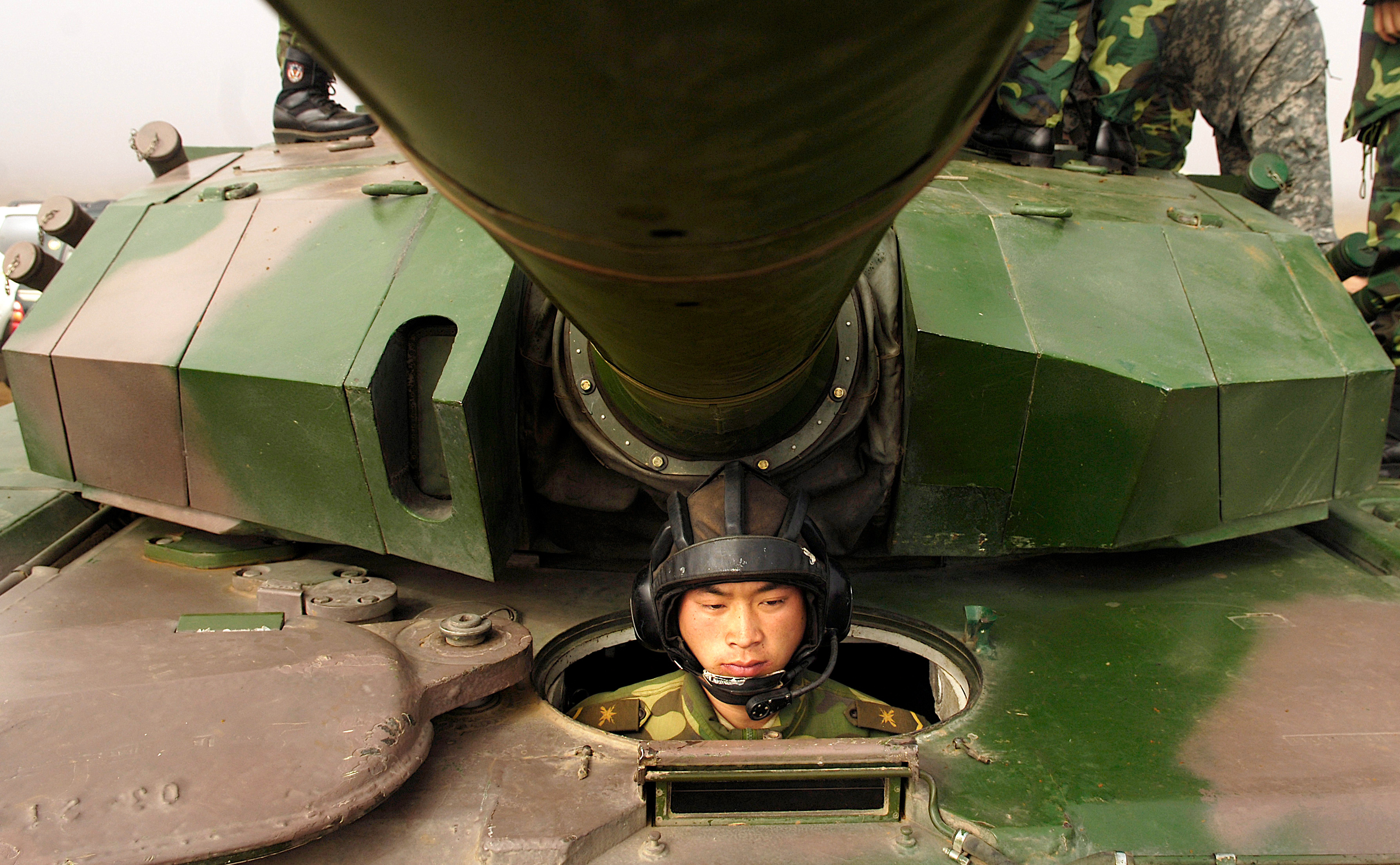 The driver position of a Type 99 tank at Shenyang training base, China.